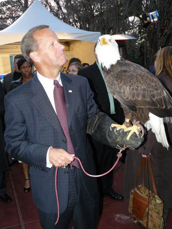 Accompanying note: "Florida Atlantic University President Frank Brogan put on a heavy leather glove to safeguard the sleeve of his suit as he met a bald eagle at the SeaWorld exhibit during the annual session-eve Associated Industries of Florida cocktail party on March 2, 2009. Later in the year, Brogan became chancellor of the State University System."